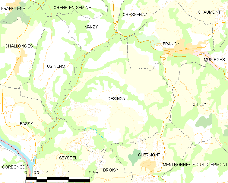 Map of French municipality Desingy